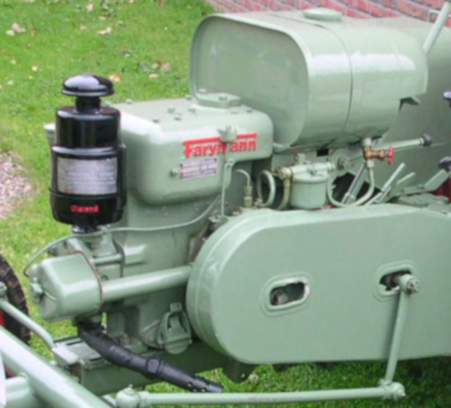 Farymann engine type DL2 with 10 hp in a Normag Zorge C10 (1952)